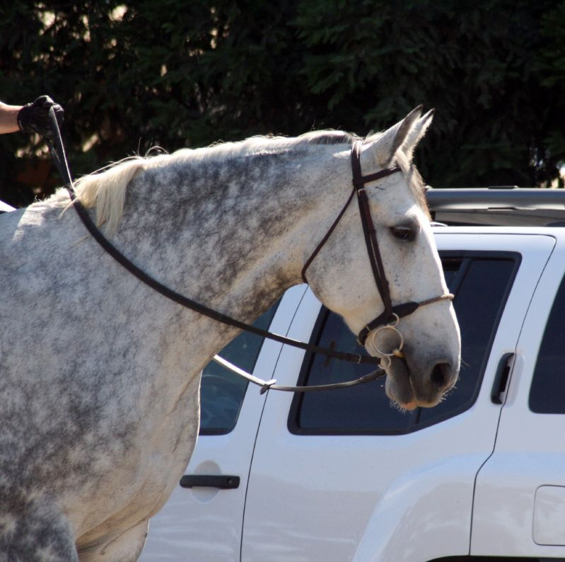 Irish Draft Horse